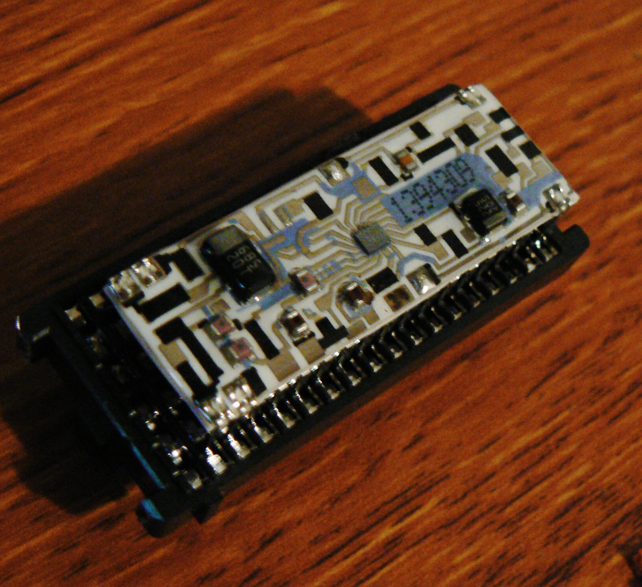 An image of the internal control chip found on the computer installed in the Oldsmobile 1995 Royal 88